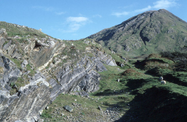 Diamond Hill, Connemara National Park, 3 km from Leitir Fraic, Galway, Republic of Ireland. Geographical data: photo taken at grid reference L7357 [Accurate to ~1000m]; WGS84: 53:33.1286N 9:54.5887W [53.55214,-9.90981]